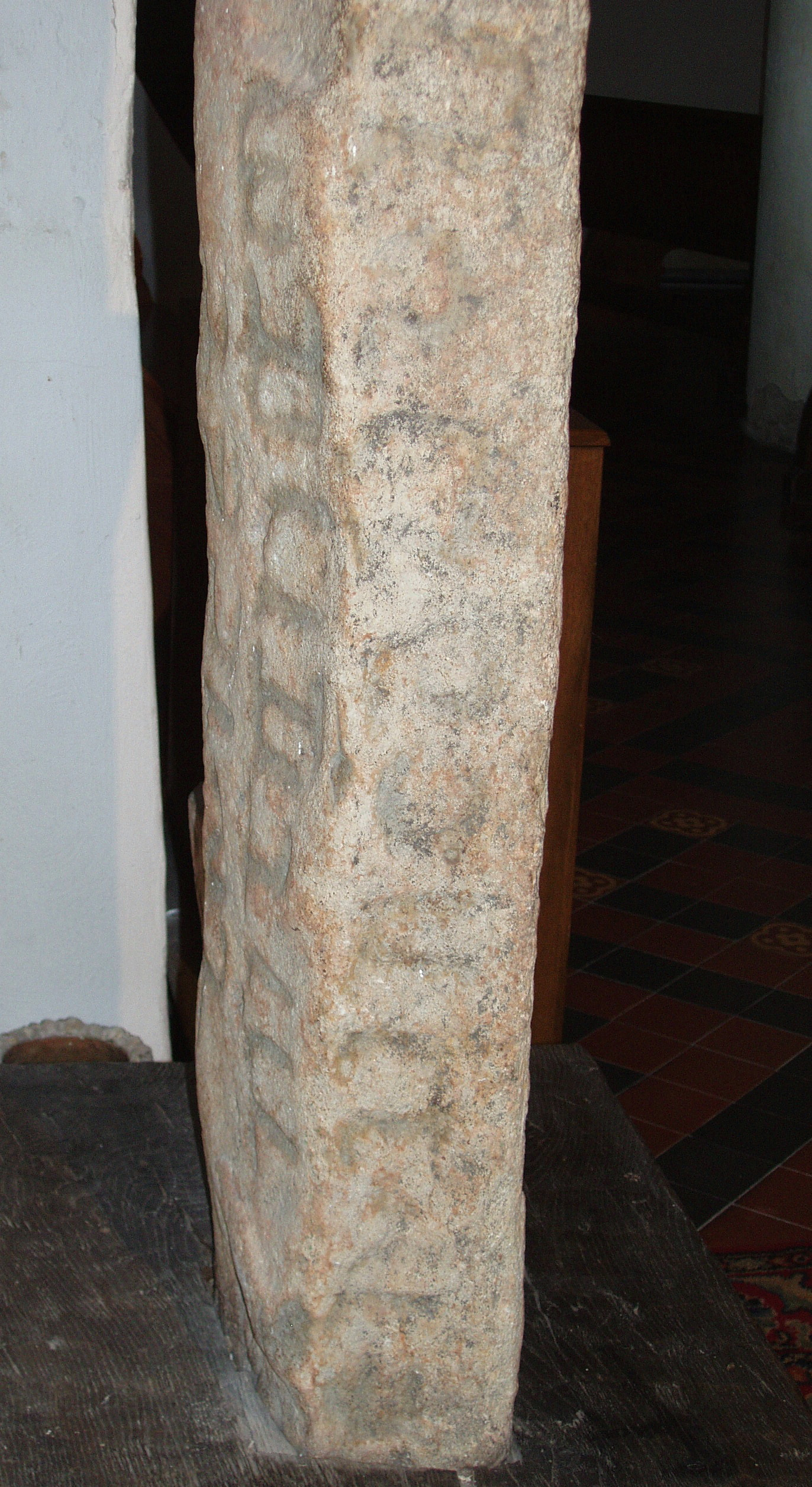 Gravestone thought to carry the earliest surviving Welsh inscription, which has been dated to the early 8th century. It is kept inside St Cadfan's church, Towyn, Gwynedd.